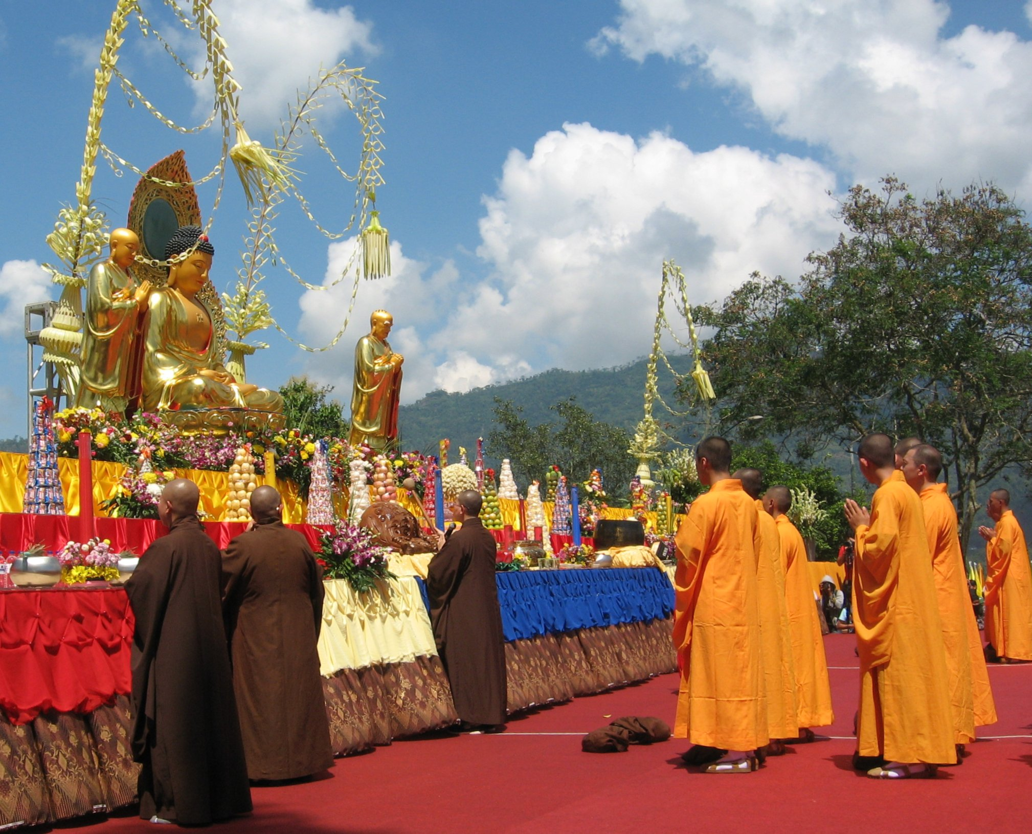 Vesak Day 2555 in Borobudur